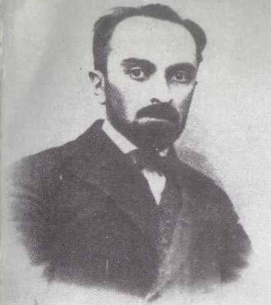 Adam Skwarczyński (1886-1934), originally published in Gazeta Polska